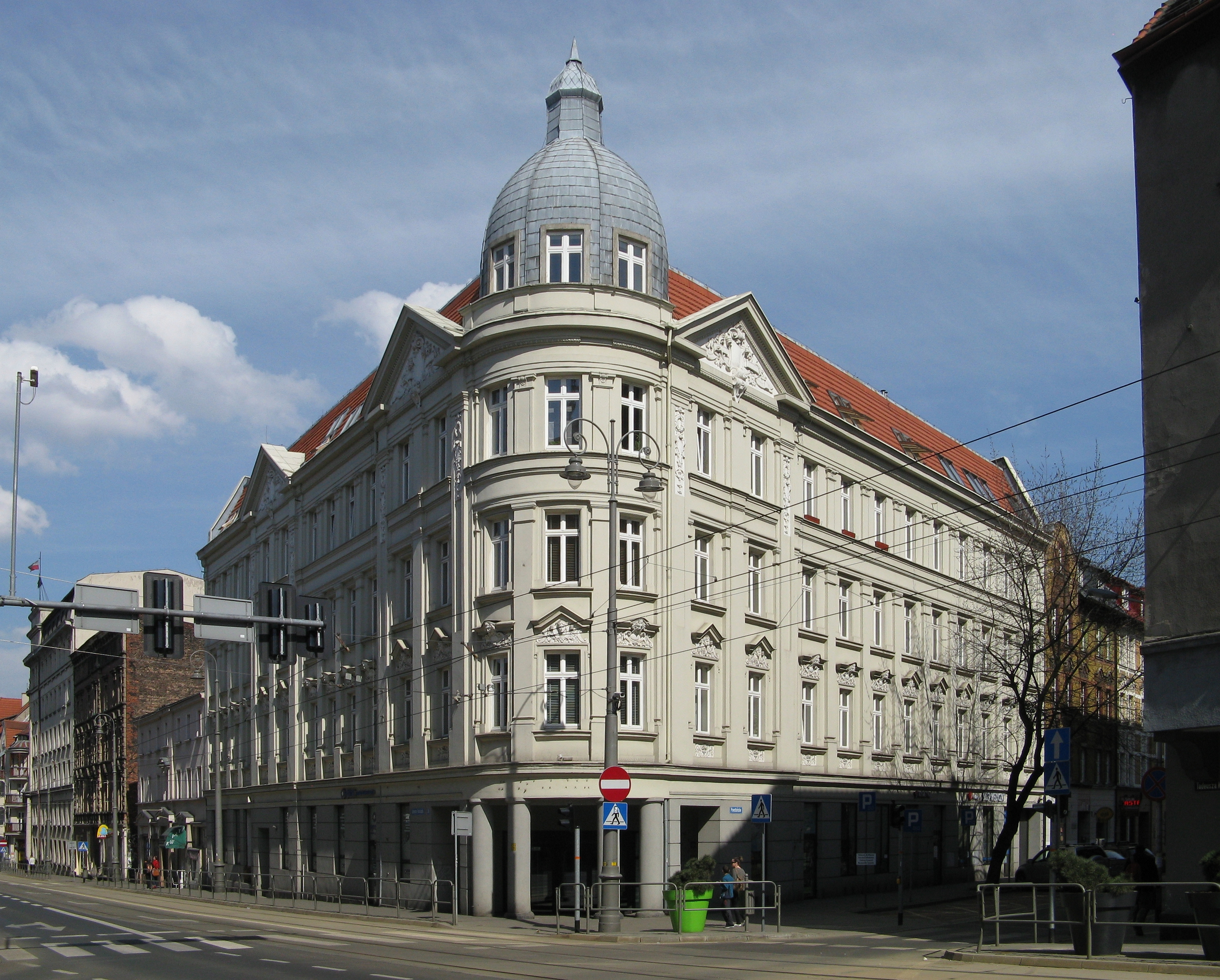 The building in Katowice, Kościuszki 38 street, Poland.